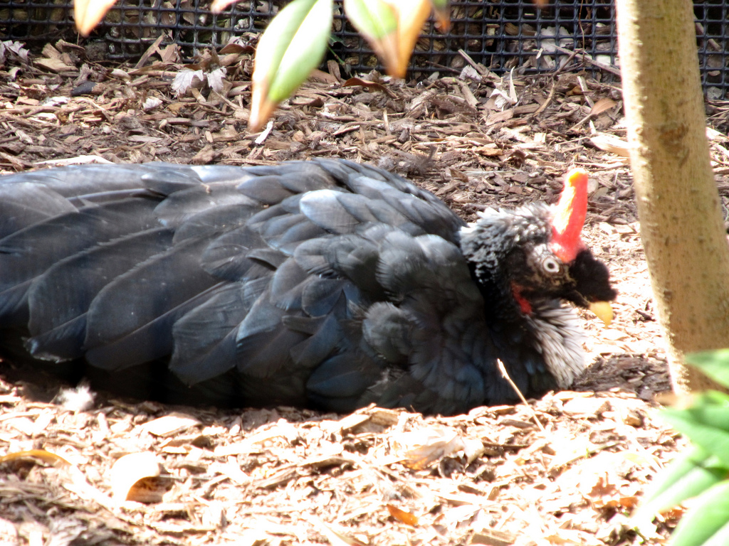 One of my favorite birds I've ever seen. Why? It is an endangered Mexican bird that is virtually nonexistent in American zoos.